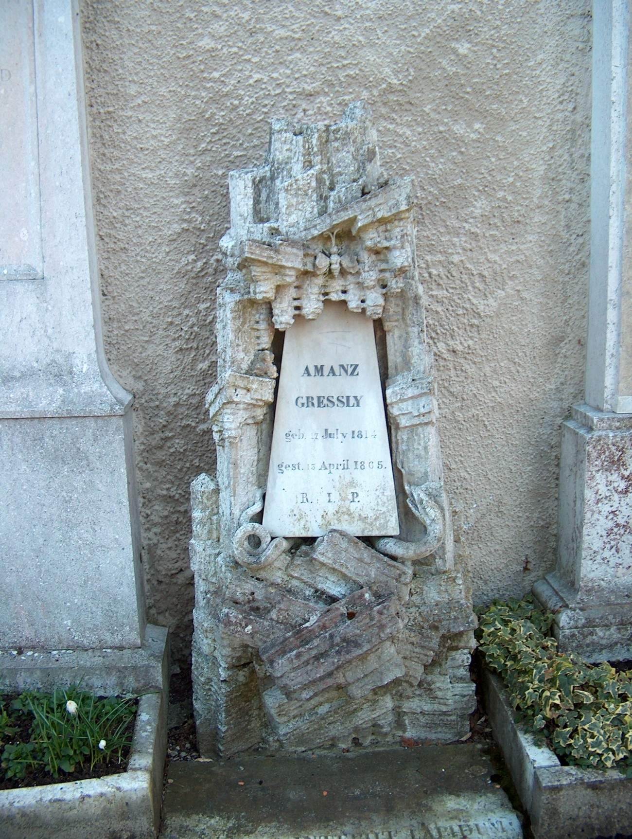 Gravestone of Swiss geologist Amanz Gressly (1814-1865) at St. Niklaus cemetery near Solothurn, Switzerland. Picture taken by user Gestumblindi, April 2006.